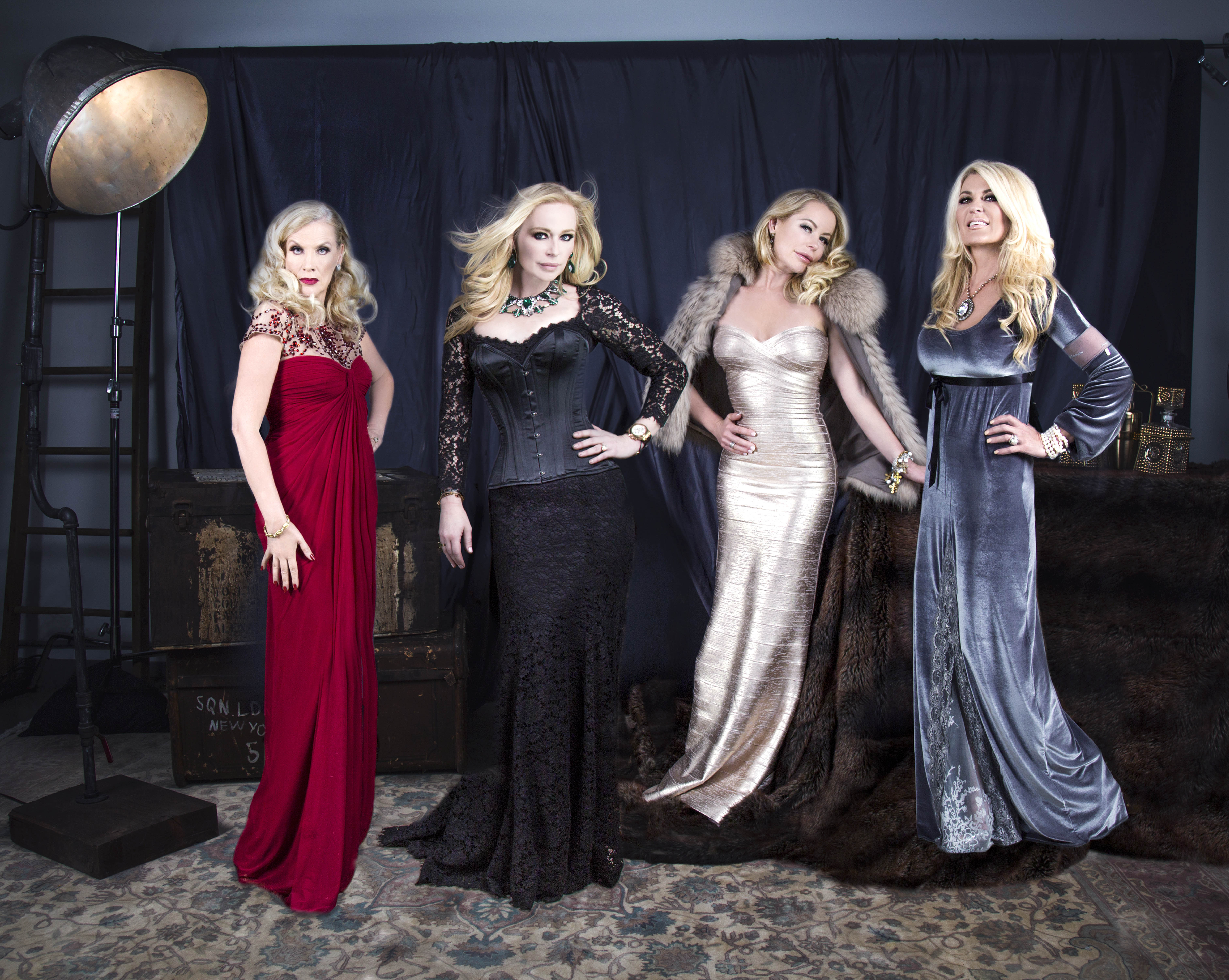 Maria Montazami, Gunilla Persson, Åsa Vesterlund, Isabel Adrian.